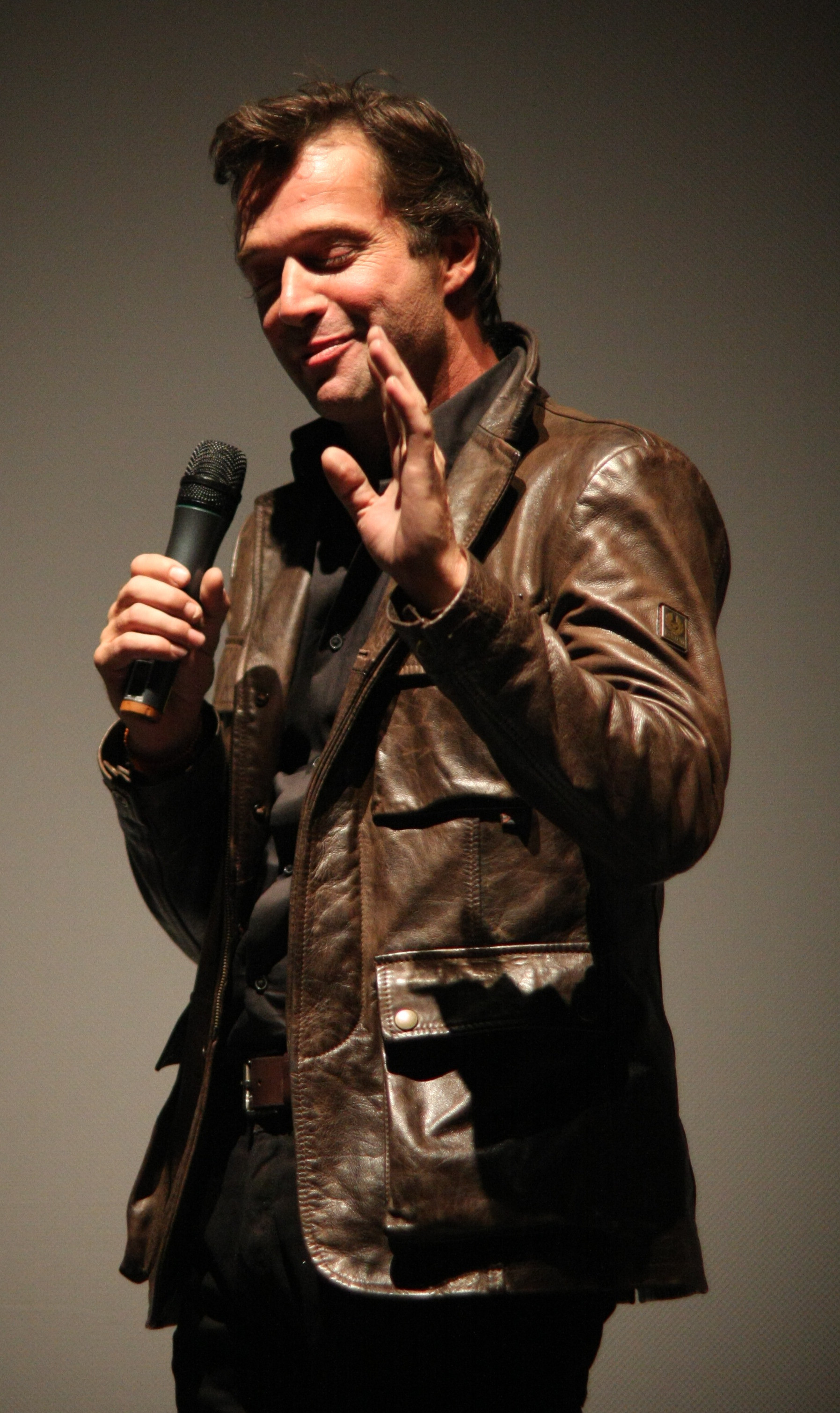 James Purefoy in real life looks a lot different from Kane.